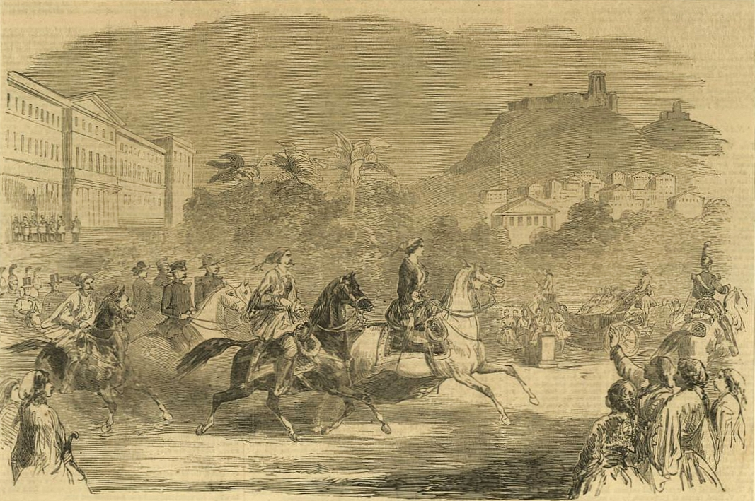 King Otto and Queen Amalia of Greece whilst on a ride through Athens